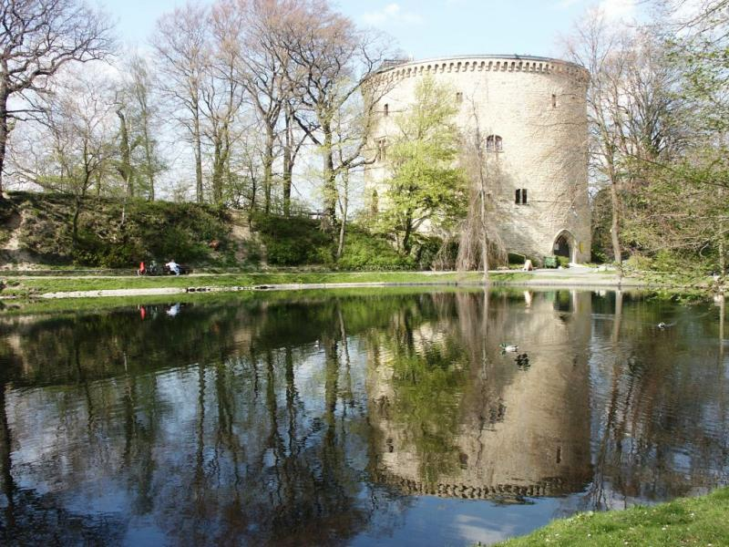 Zwinger Goslar Harz